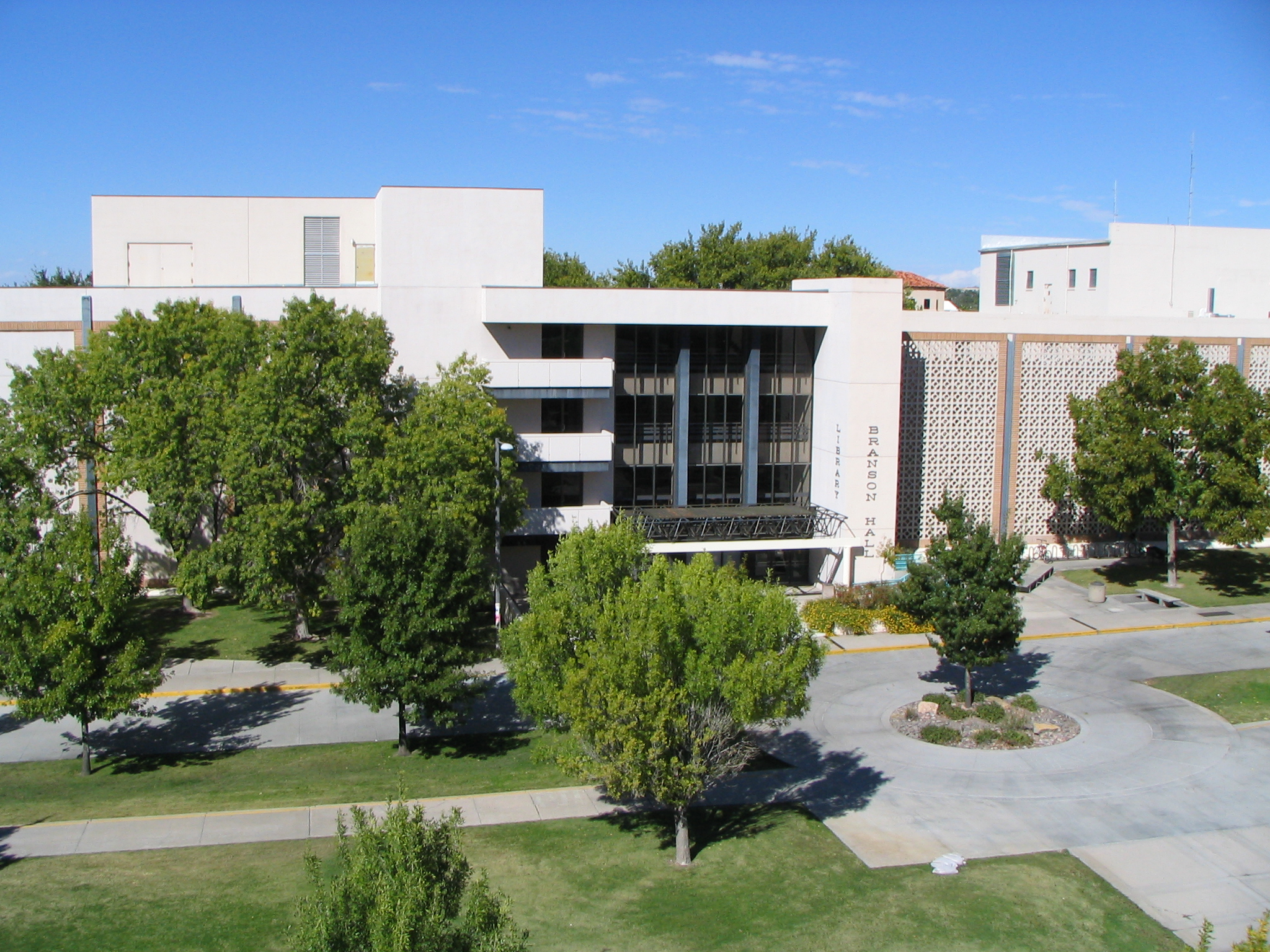 Branson Library, New Mexico State University